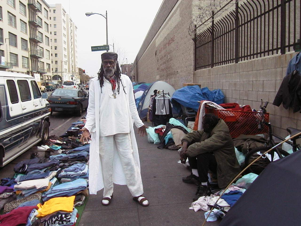 Homeless-Civil Rights activists Ted Hayes at sidewalk encampment in downtown Los Angeles Central City East District, dubbed Skid Row, the national capital, "ground 0" and "black hole" of homelessness.